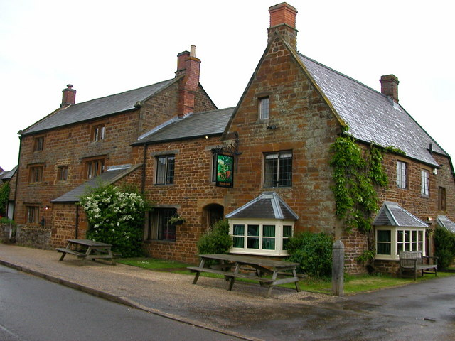 The Royal Oak public house, Lime Avenue, Eydon, Northamptonshire